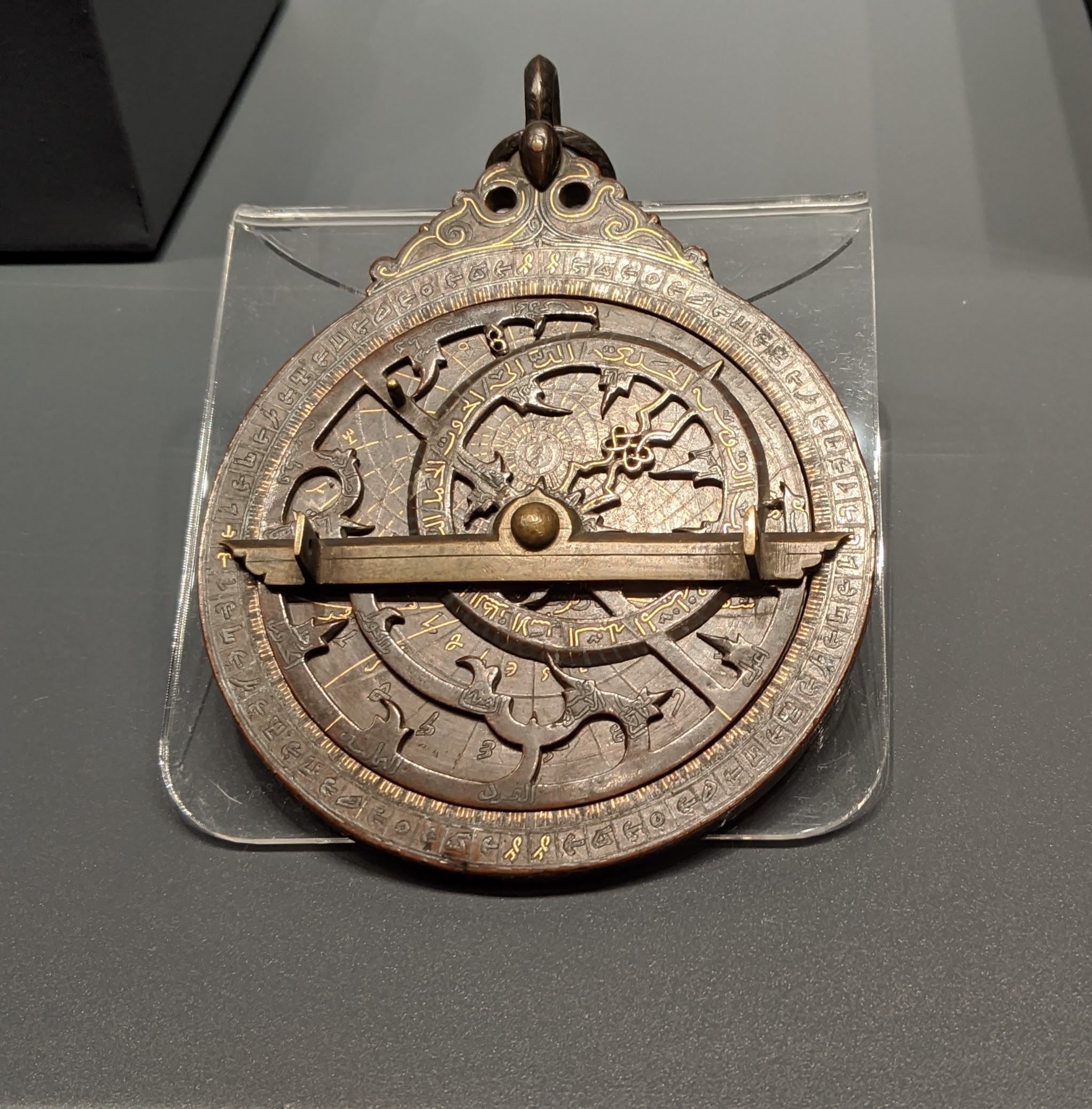 Mamluk era astrolabe, dated 1282 inv no. 2970 Turkish and Islamic Arts Museum Native nameTürk ve İslâm Eserleri MüzesiLocationIstanbulCoordinates41° 00′ 22.6″ N, 28° 58′ 28.4″ E Established1914Web control : Q525939 VIAF: 137639434 ISNI: 0000 0001 2110 5264 LCCN: nr89008075 SUDOC: 066011000 BNF: 13619676w WorldCat institution QS:P195,Q525939